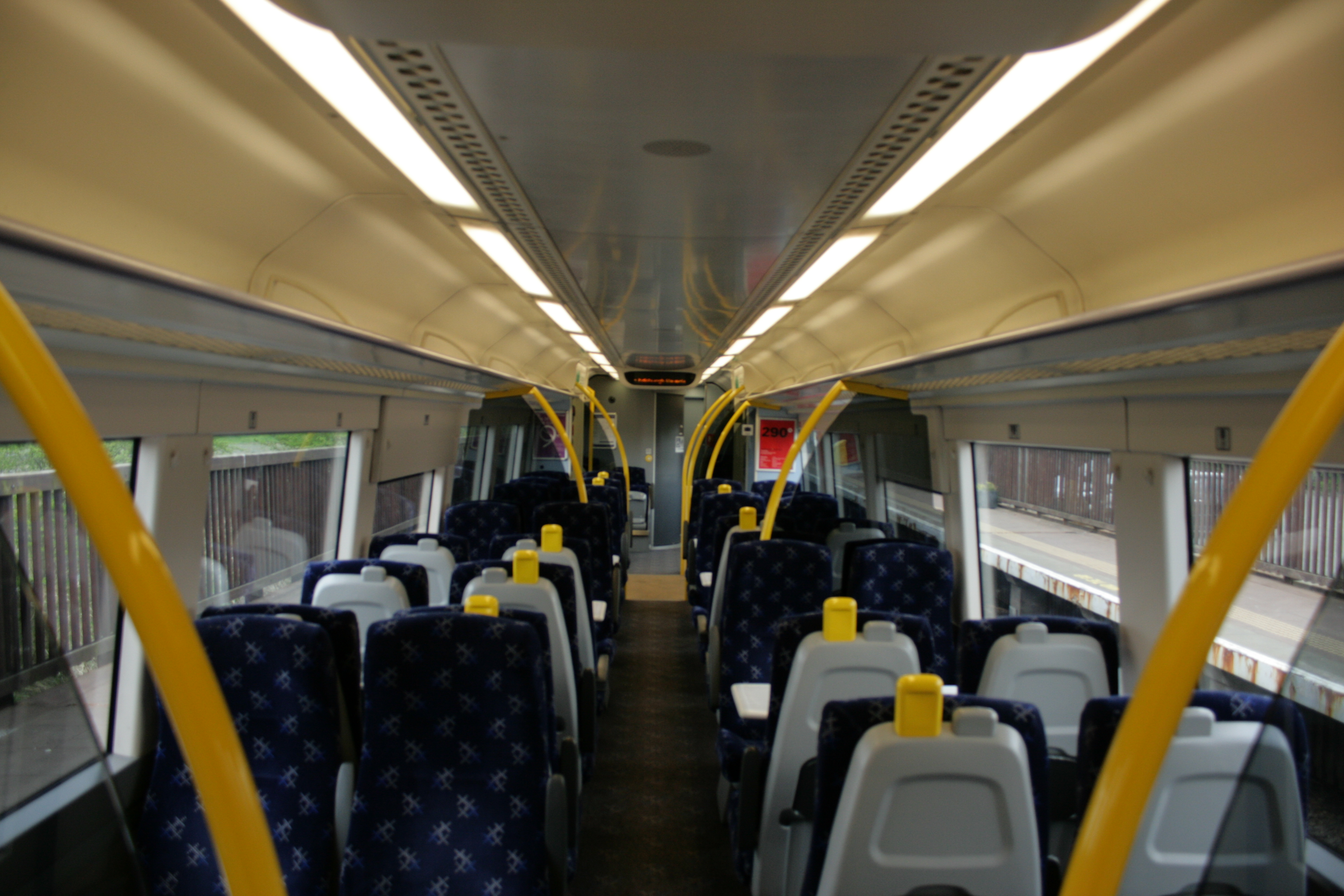 The refurbished interior of a ScotRail Class 170. Not all 170s have yet been refurbished.